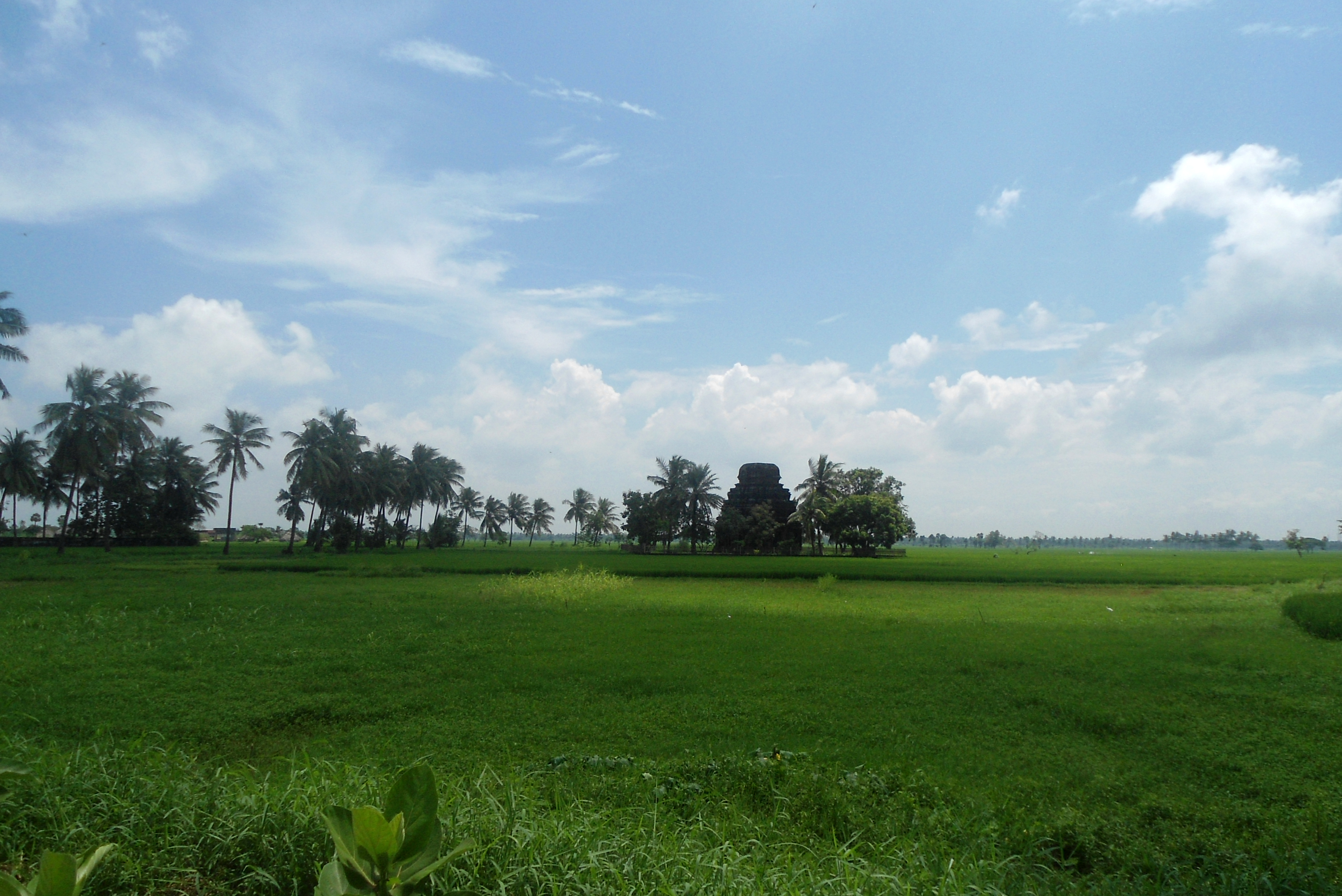 View of Fields at Biccavolu in East Godavari district